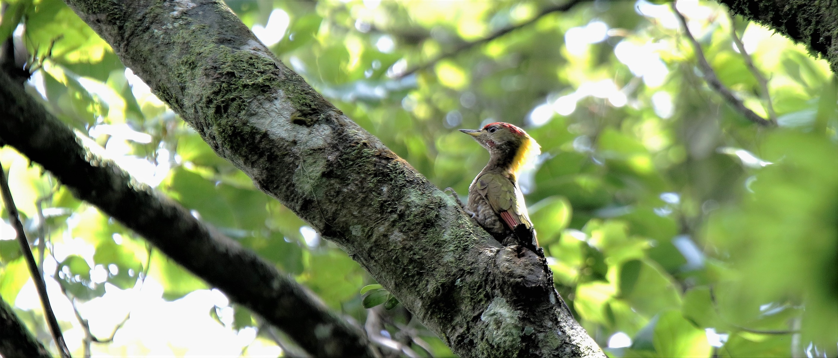 Lesser yellownape - Picus chlorolophus in Vietnam